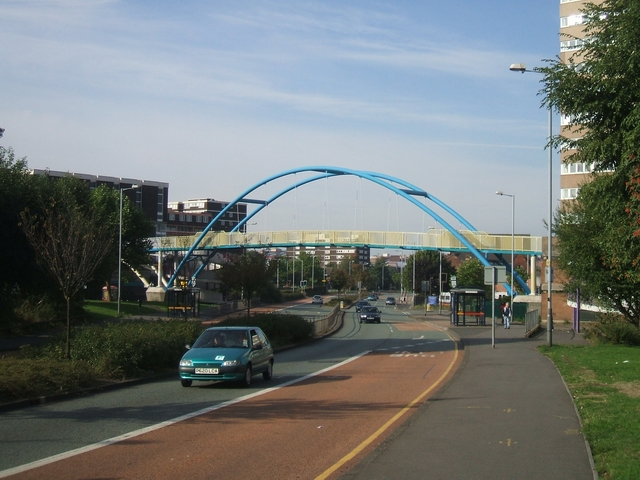 Footbridge over Wednesfield Road. This bridge connects between high rise blocks on the Heath Town Estate.